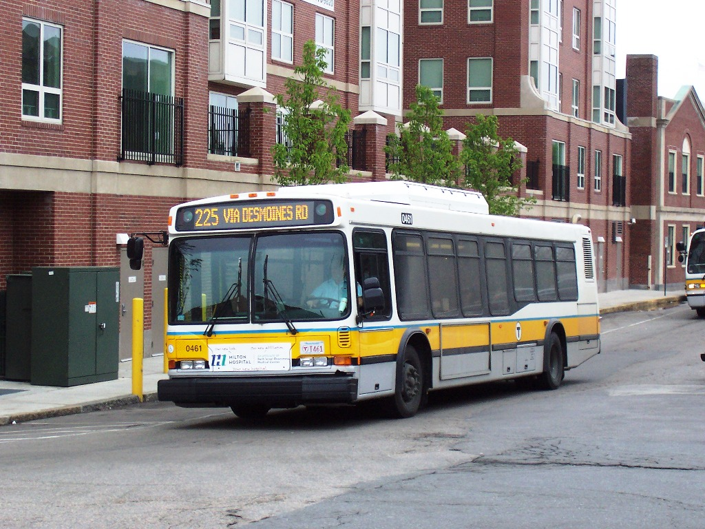 MBTA Neoplan AN440LF #0461 in Quincy, Massachusetts